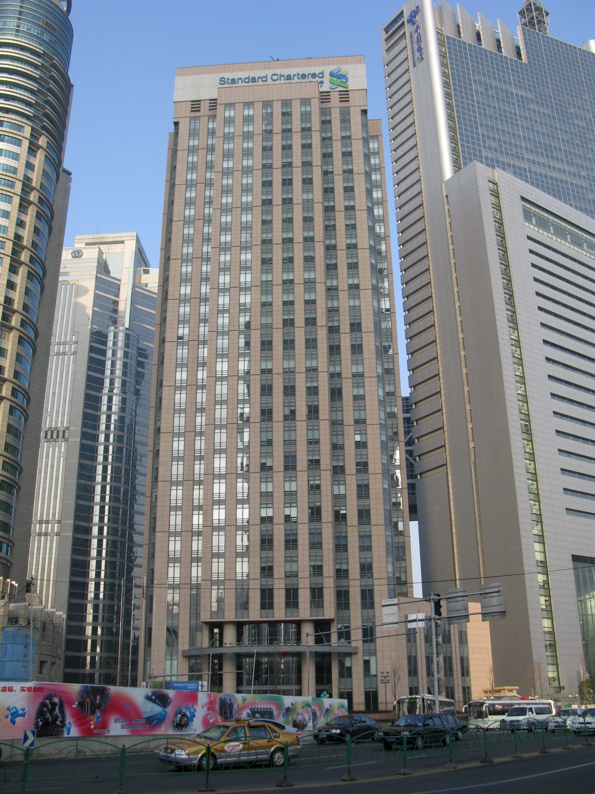 Standard Chartered Bank Tower (f.k.a. Lujiazui Development Tower)